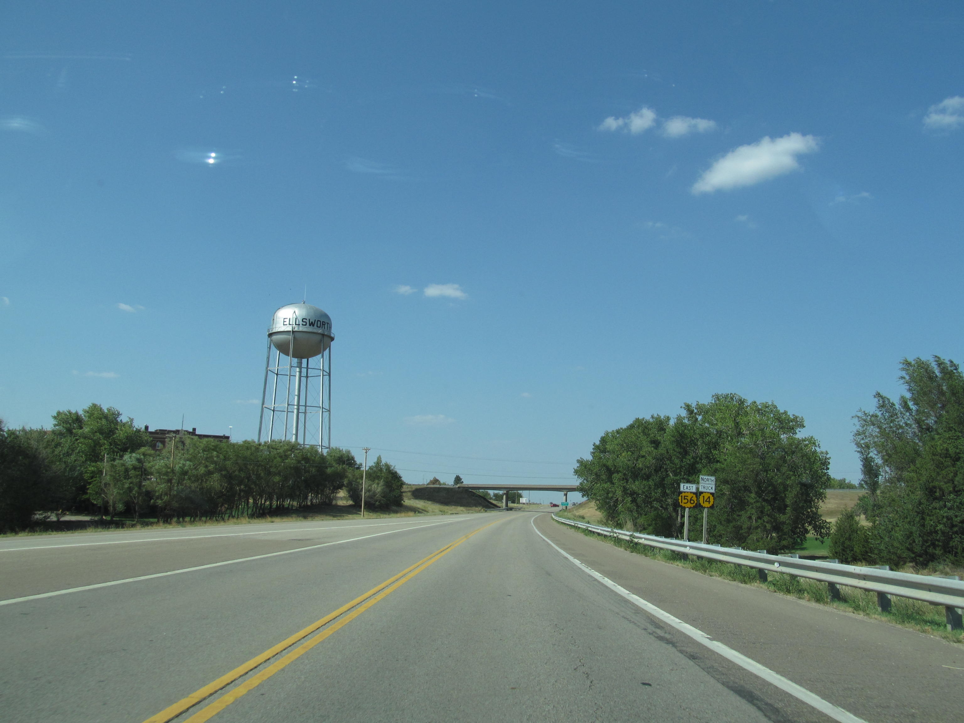 Ellsworth, Kansas water tower as seen from Kansas State Highway 156